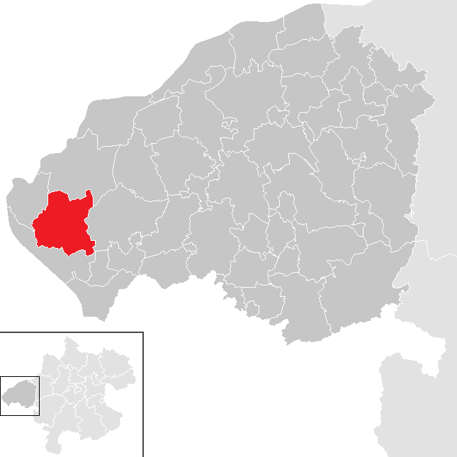 district Braunau am Inn